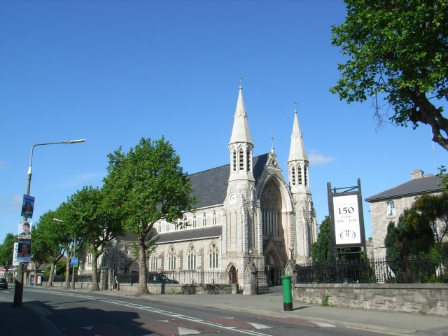 Church of Mary Immaculate, Inchicore On Tyrconnel Road.